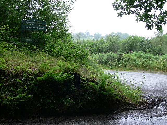 Main Entrance To Allt Llwynywormwood Public access wood. Photo show Llandovery to Myddfai road in foreground.